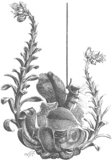 Cotyledon (Echeveria stolonifera from the Gardeners Chronicle